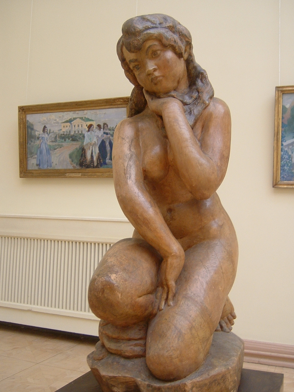 Sergey Konenkov Bather (Купальщица), 1917 Russian Museum, photography is mine